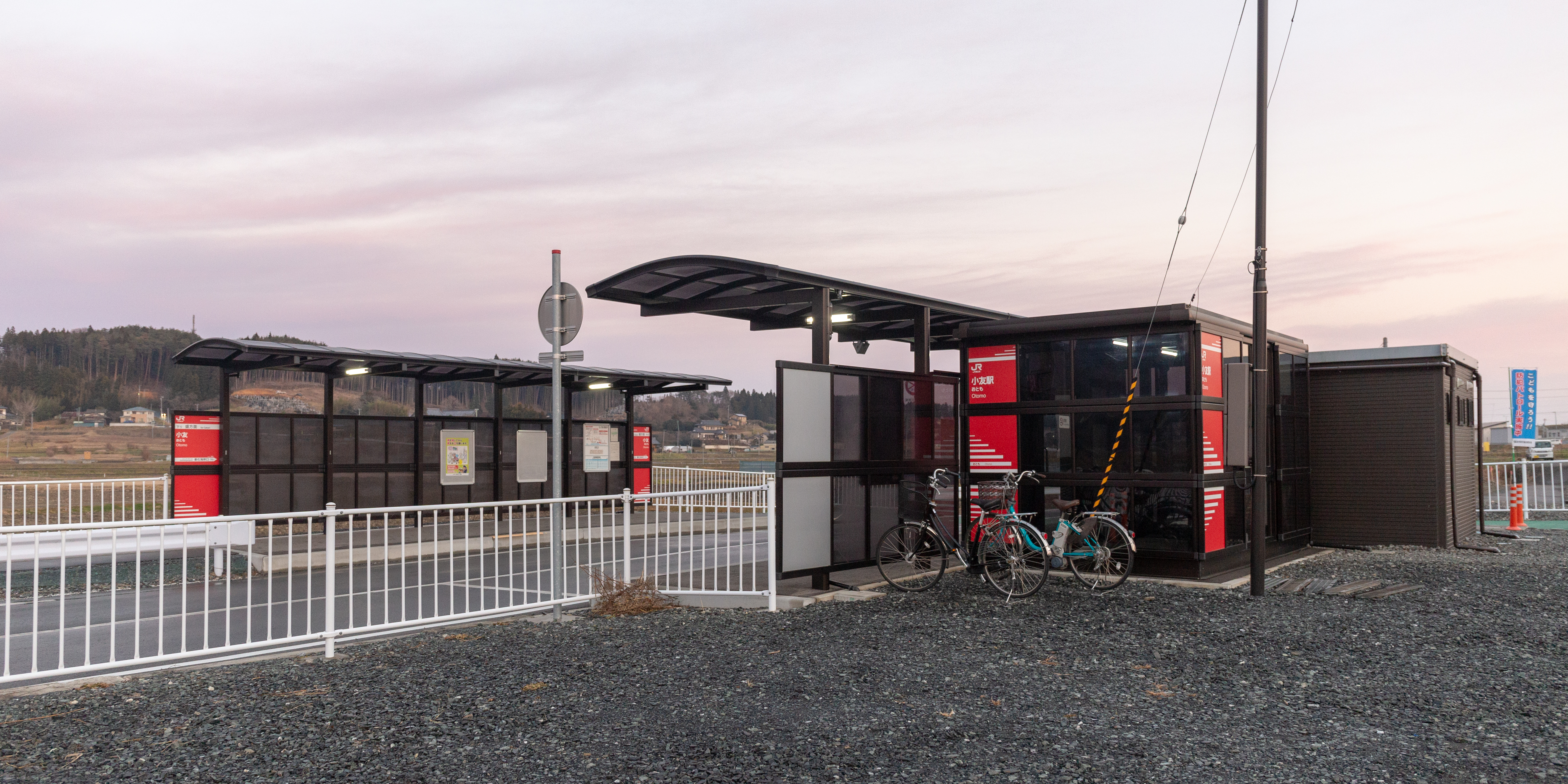 Otomo Station on the East Japan Railway (JR East) Ofunato Line BRT in Rikuzentakata City, Iwate Prefecture, Japan